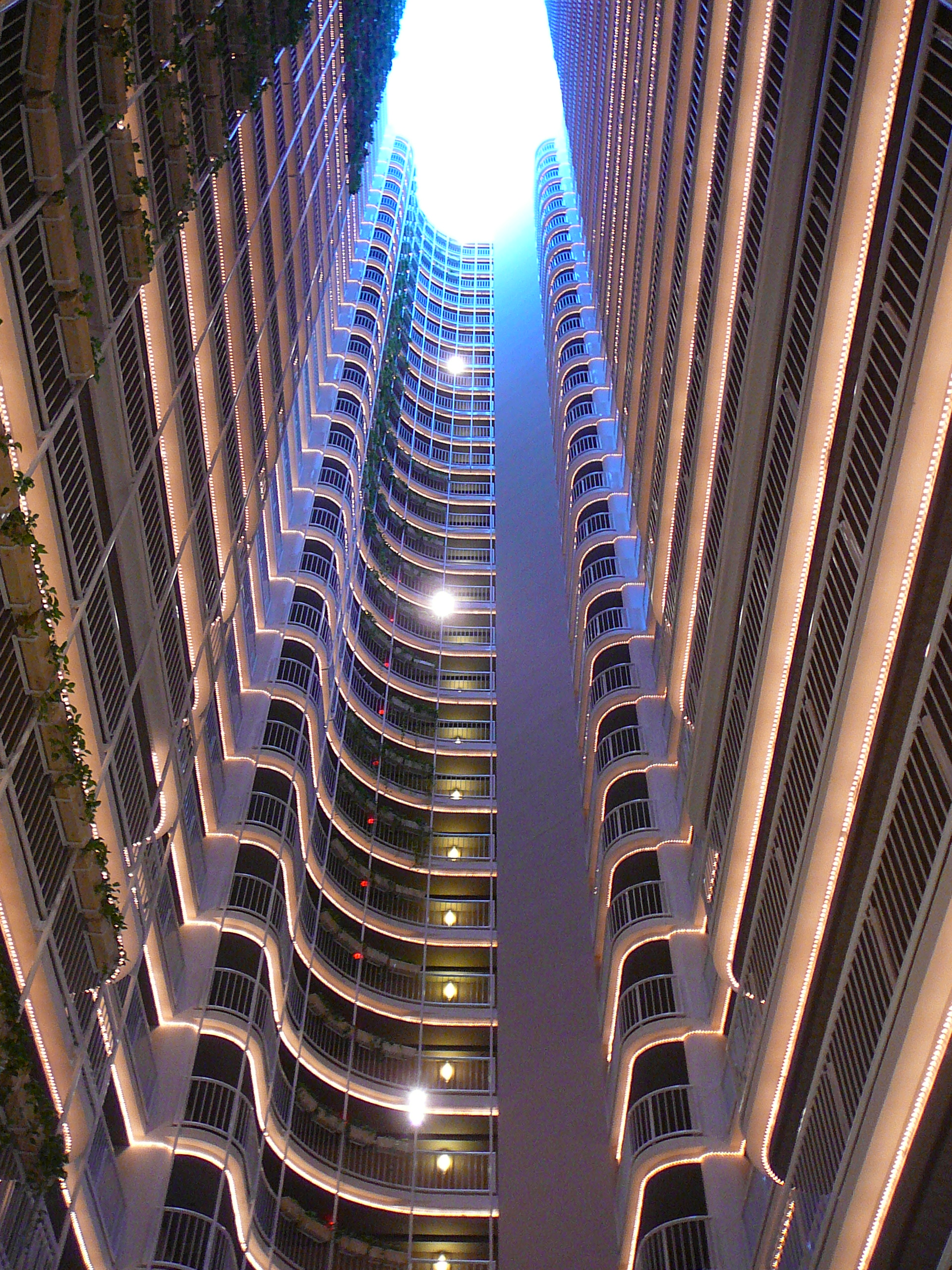 Digital photo taken by Marc Averette. Looking up in the east atrium in The Grand Doubletree in Downtown Miami